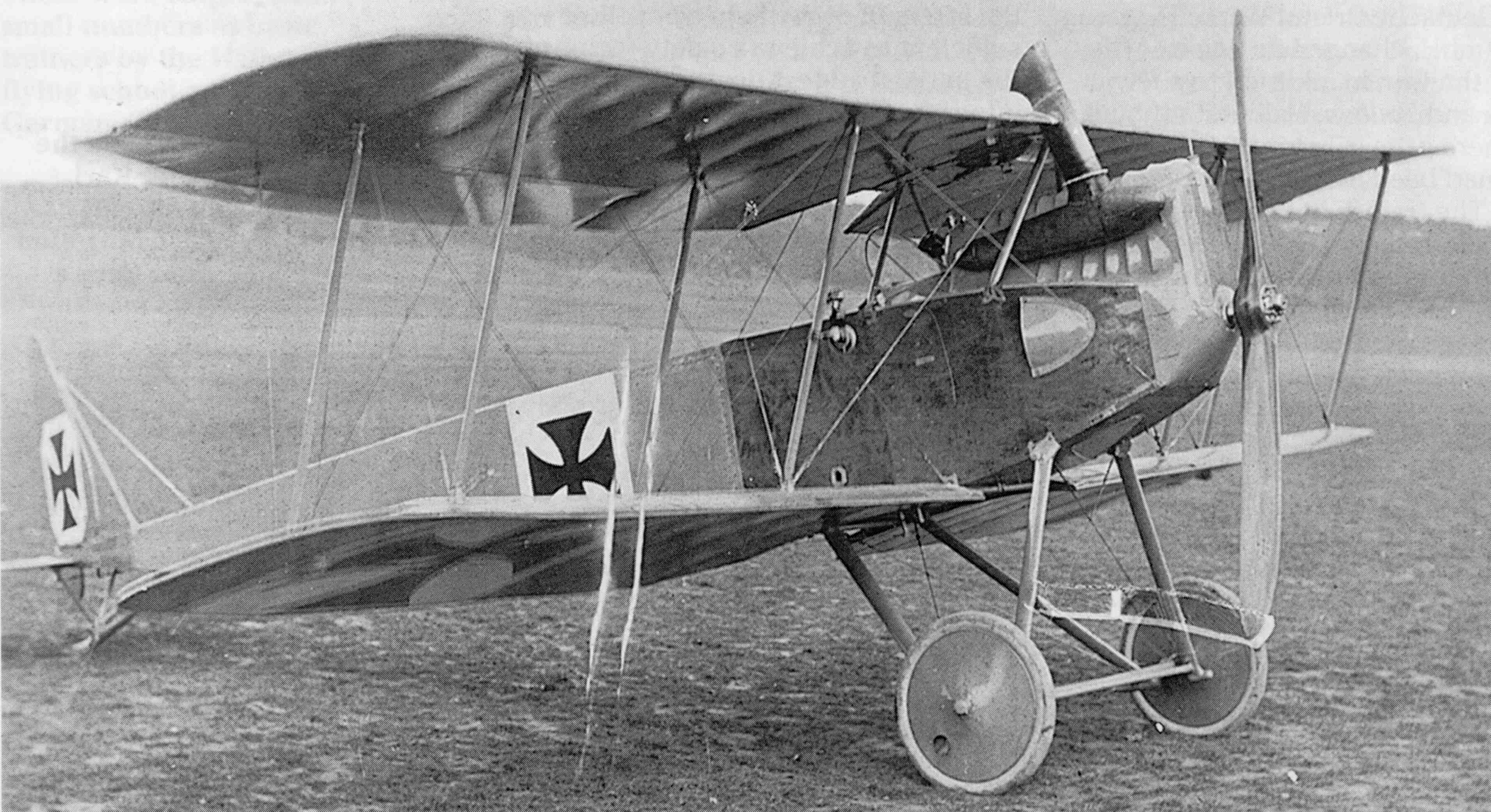 The first Halberstadt D-series prototype, the D.I, the later of the two prototypes crafted by the Halberstädter Flugzeugwerke in late 1915.